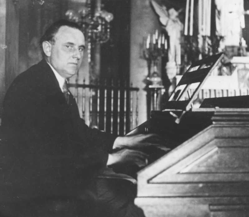 Edouard Devernay at Notre-Dame des Victoires organ in Trouville sur Mer